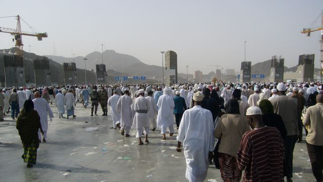 Stone throwing on the new jamarat bridge, Hajj 2006/2007 (January 2007)